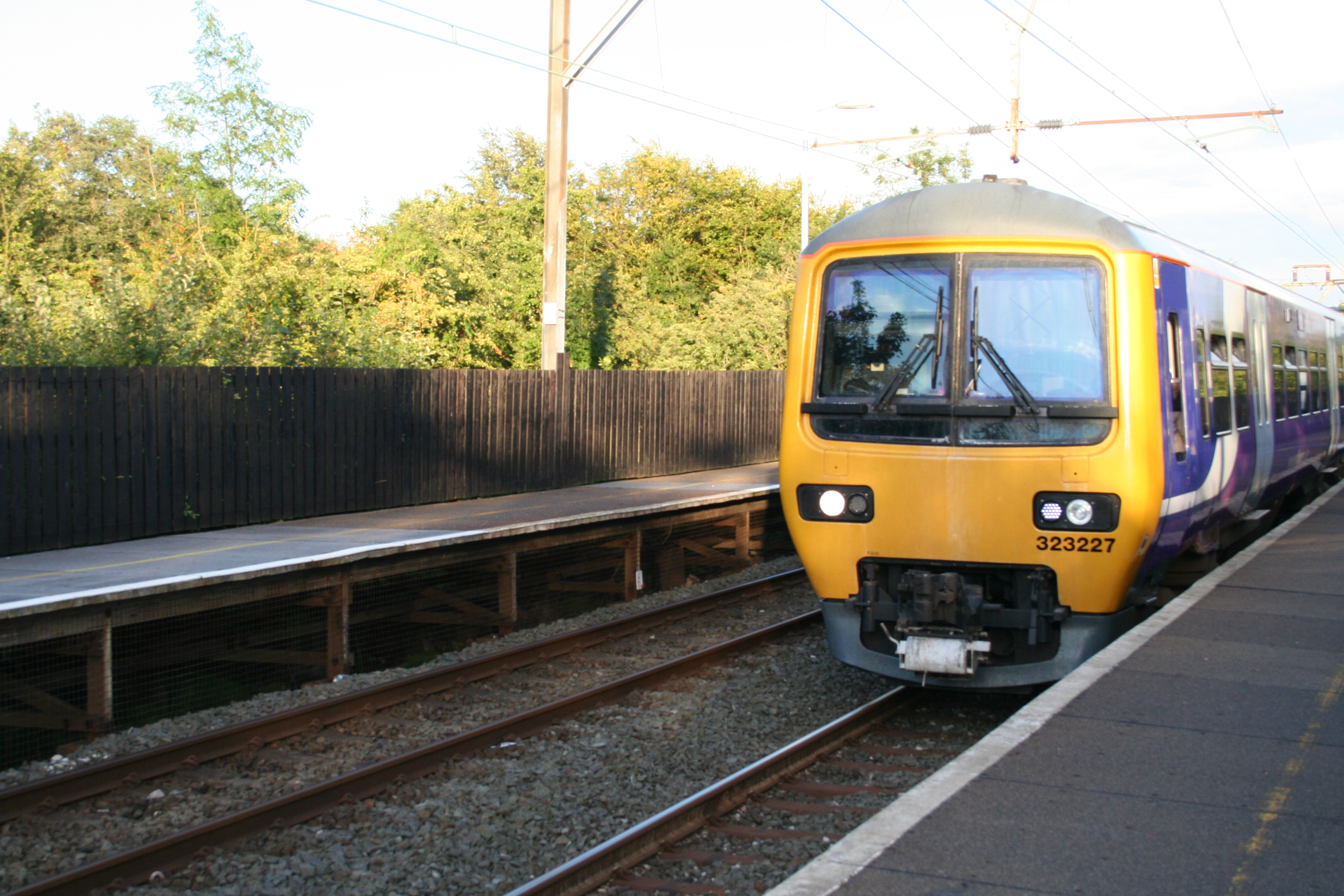 323 passing non-stop through Godley.